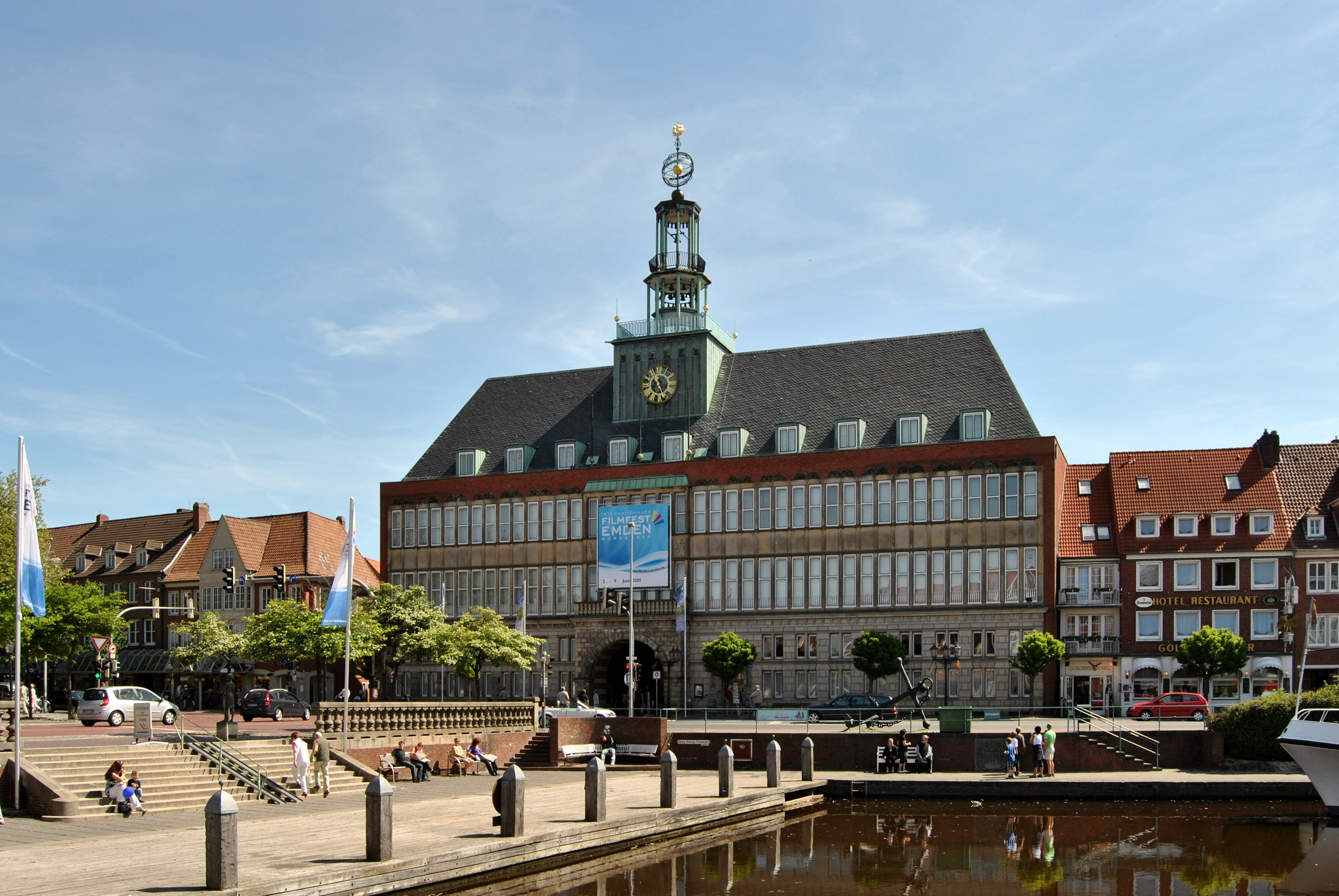 The city hall of Emden with the Ratsdelft in foreground